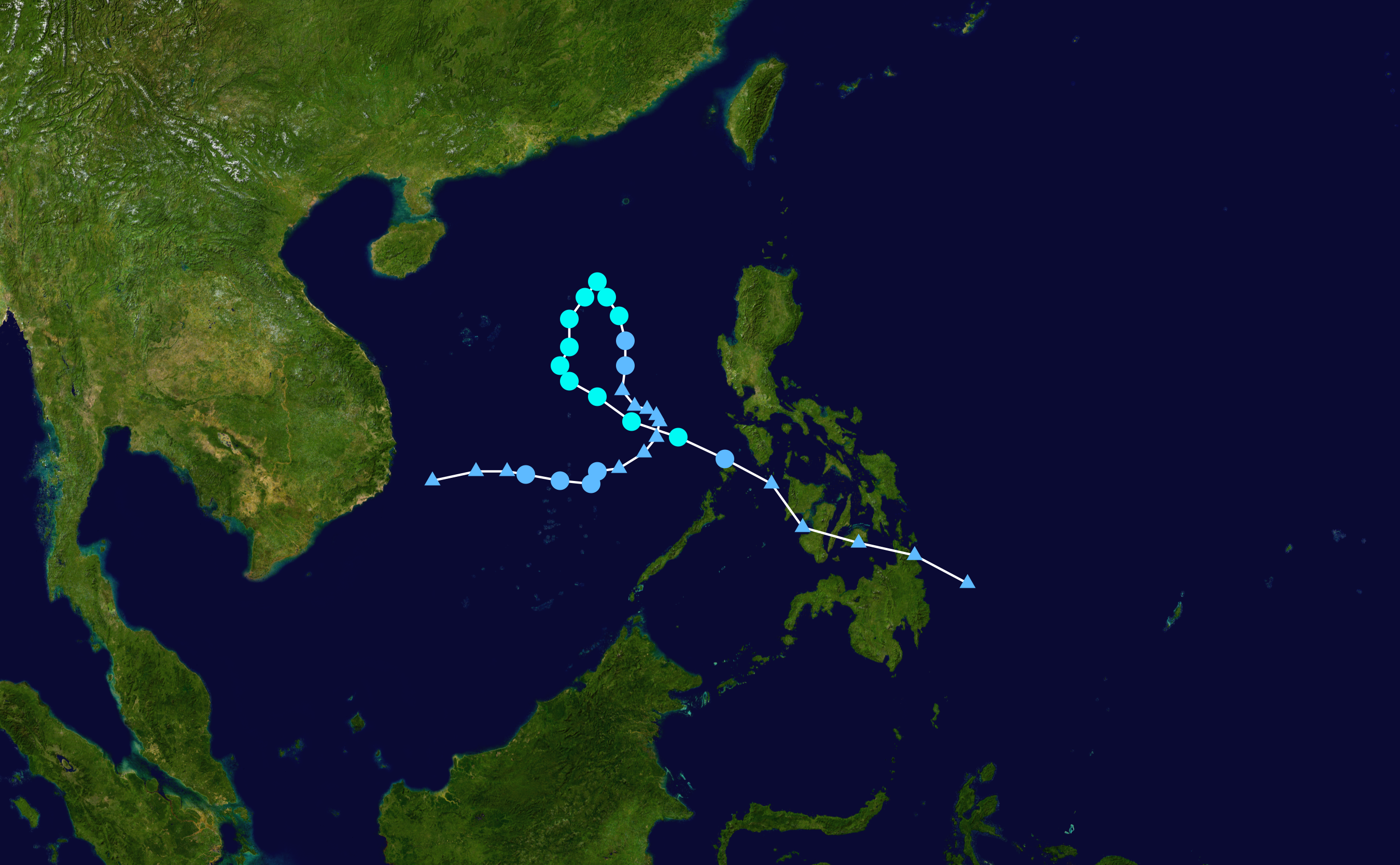 Track map of Severe Tropical Storm Maysak of the 2008 Pacific typhoon season. The points show the location of the storm at 6-hour intervals. The colour represents the storm's maximum sustained wind speeds as classified in the Saffir–Simpson scale (see below), and the shape of the data points represent the nature of the storm, according to the legend below. Saffir–Simpson scale Tropical depression≤38 mph≤62 km/h Category 3111–129 mph178–208 km/h Tropical storm39–73 mph63–118 km/h Category 4130–156 mph209–251 km/h Category 174–95 mph119–153 km/h Category 5≥157 mph≥252 km/h Category 296–110 mph154–177 km/h Unknown Storm type Tropical cyclone Subtropical cyclone Extratropical cyclone / Remnant low / Tropical disturbance / Monsoon depression